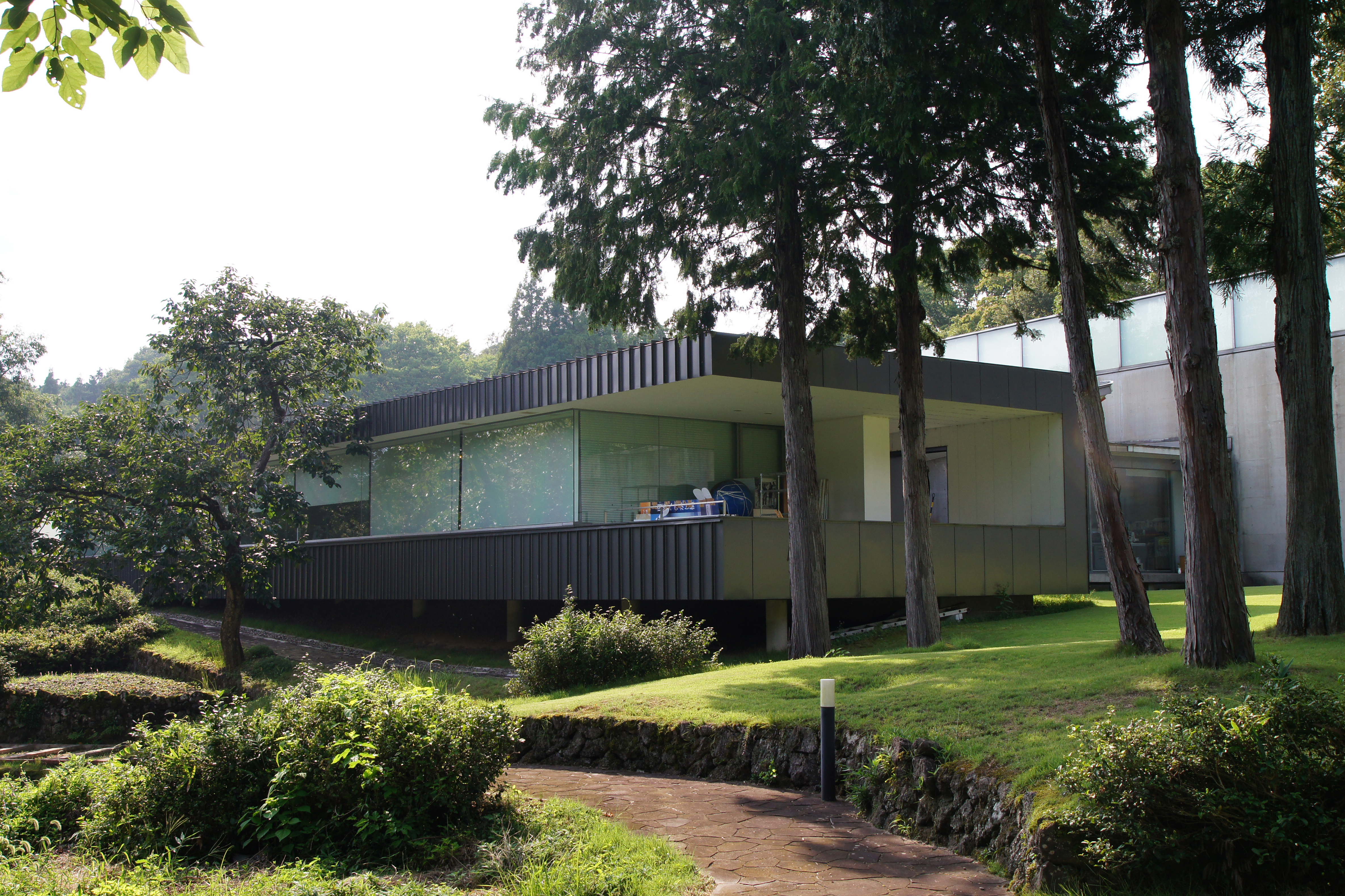 Uemura Naomi Memorial Museum in Kannabe highlands, Toyooka, Hyogo prefecture, Japan.